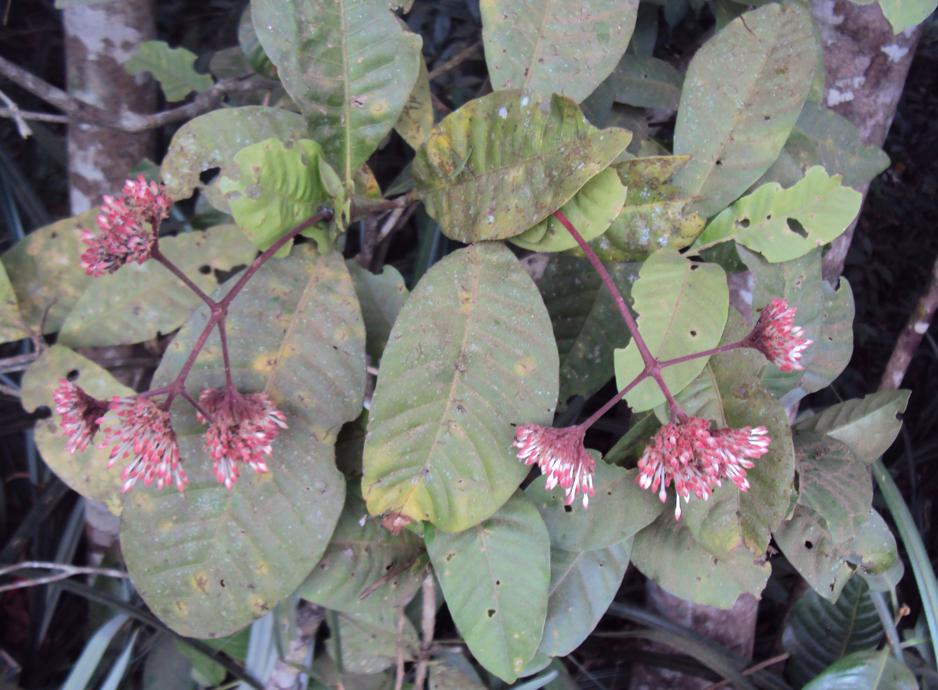 Ixora elongata B.Heyne ex G.Don